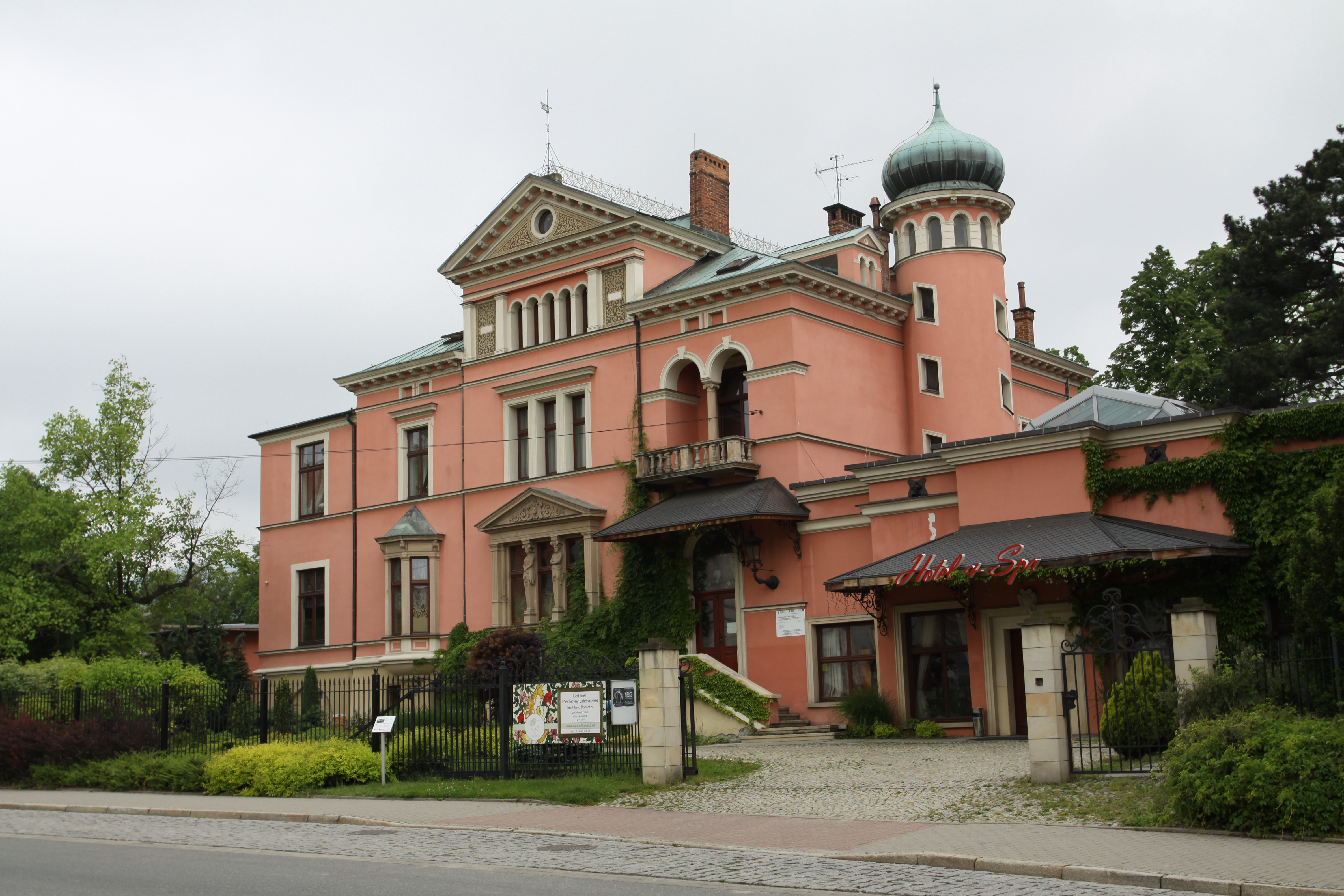 Bielawa, a town in south-western Poland situated in Dzierżoniów County, Lower Silesian Voivodeship